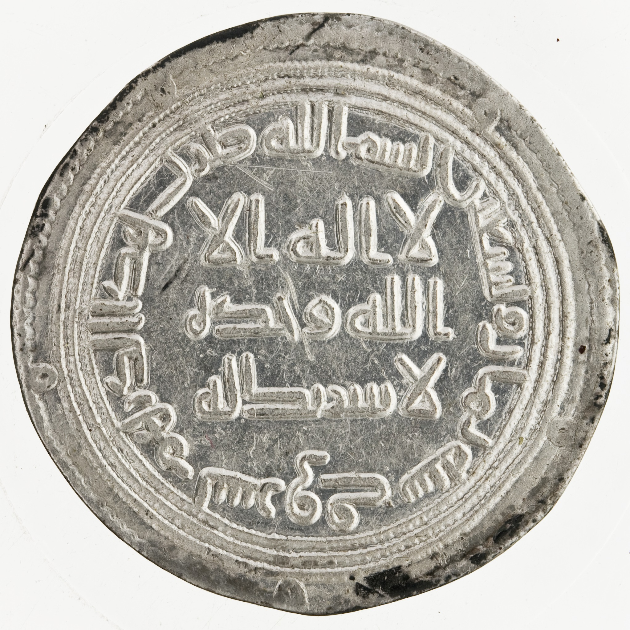 Obverse of a silver dirham minted in the name of Sulayman ibn Abd al-Malik in Surraq (modern-day Ahvaz) 716/717